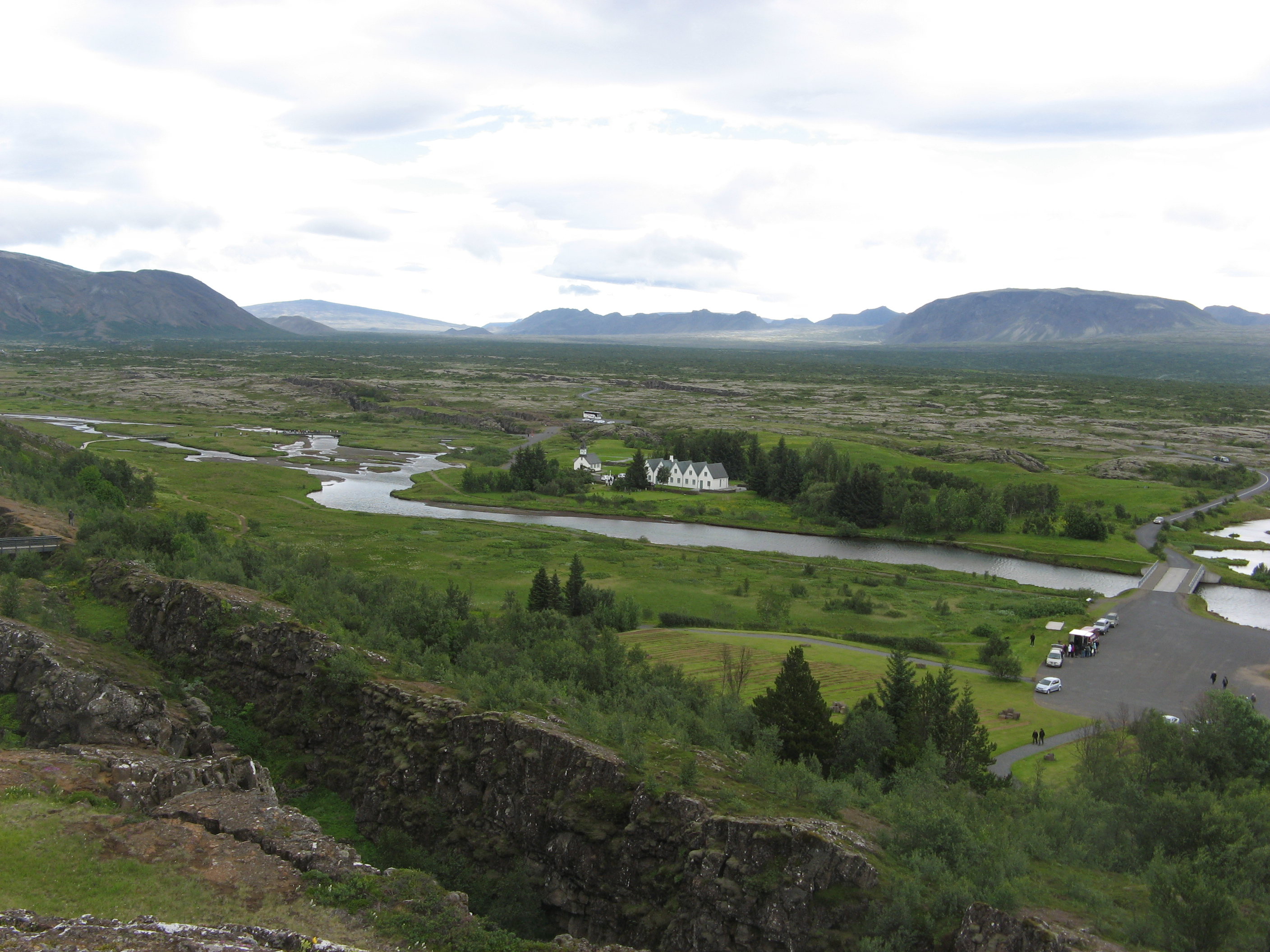 Thingvellir, Iceland landscape